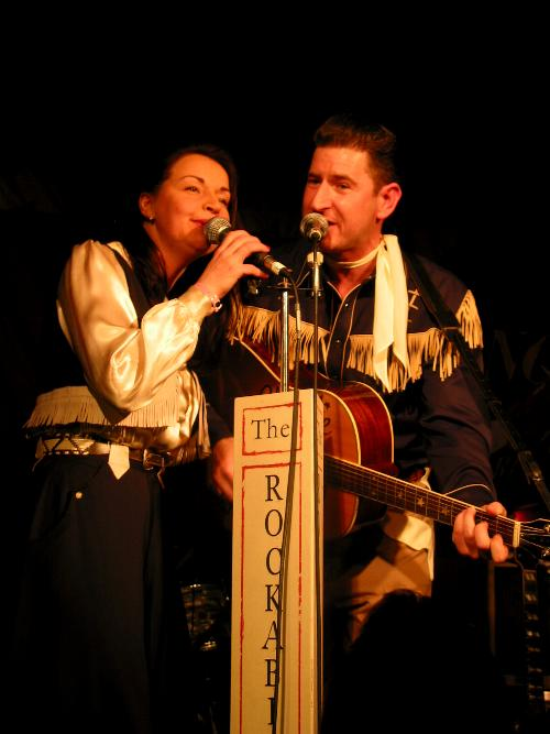 Rockabilly musicians Miss Mary Ann and Charlie Thompson performing together at the "Rockabilly Rave" (UK) in 2006.